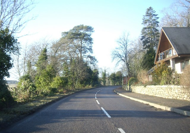 Villa by bend in the A980 road